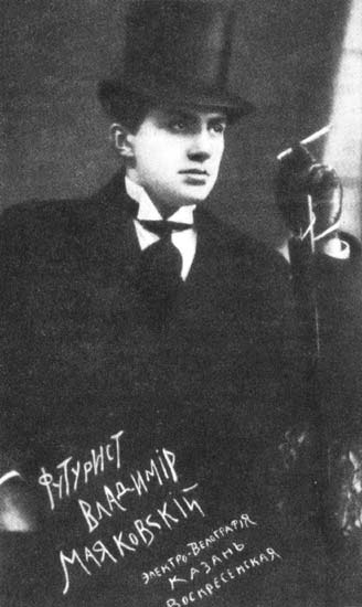 V.V.Mayakovsky. Kazan, 1914.